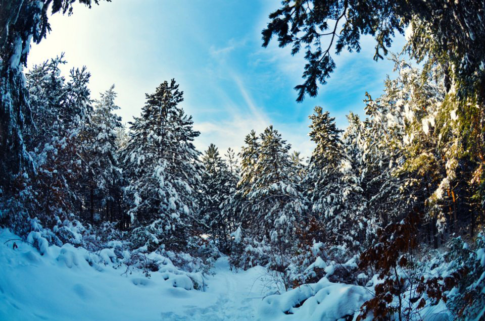 Landscape of a forest near Vushtrri